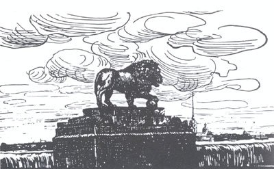 Lion with a ball in the illustration Benoit to Pushkin's poem The Bronze Horseman